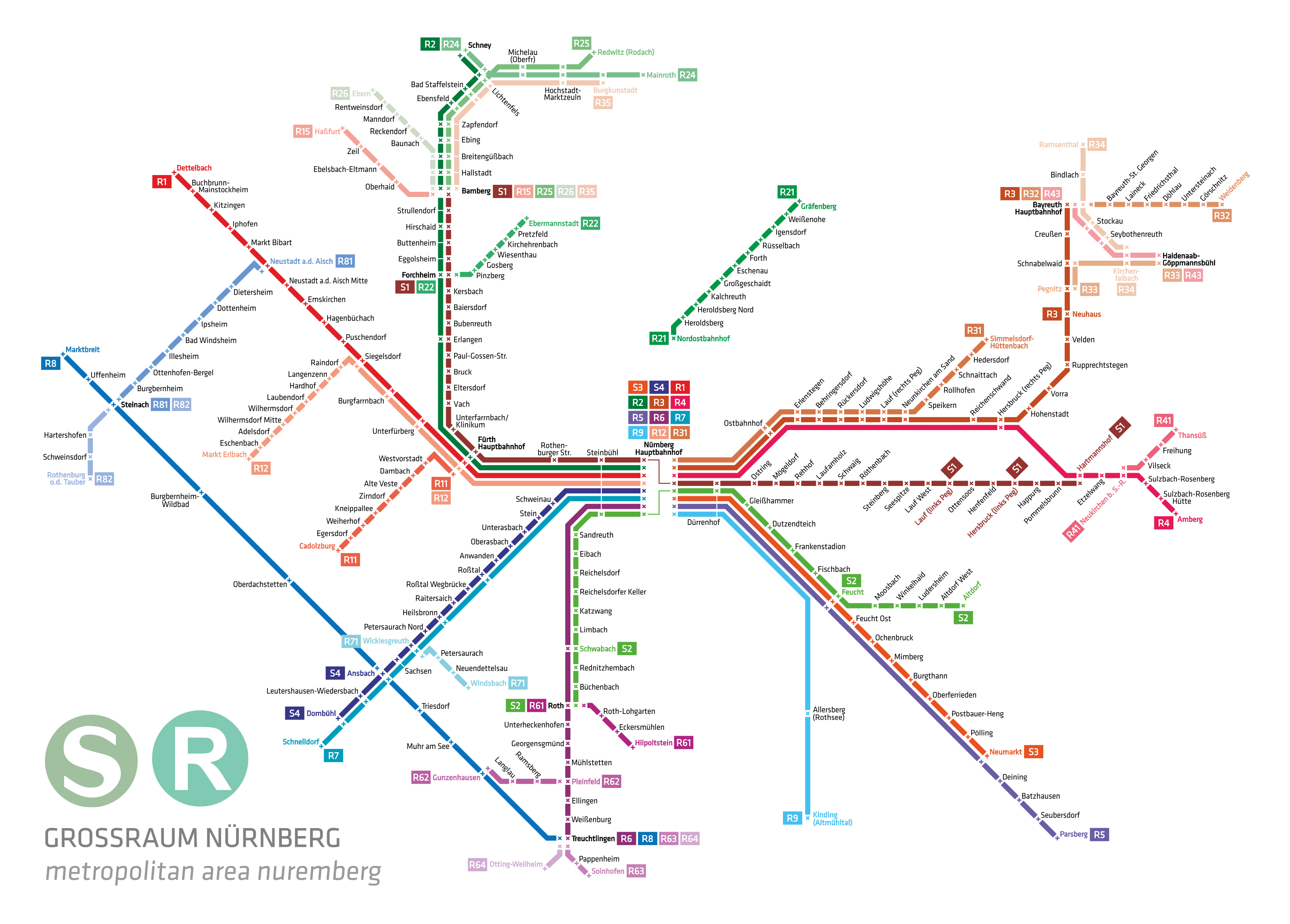 network map of the S-Bahn and R-Bahn in Nuremberg